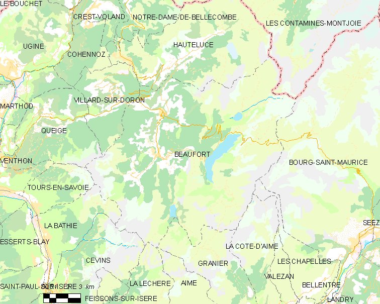 Map of French municipality